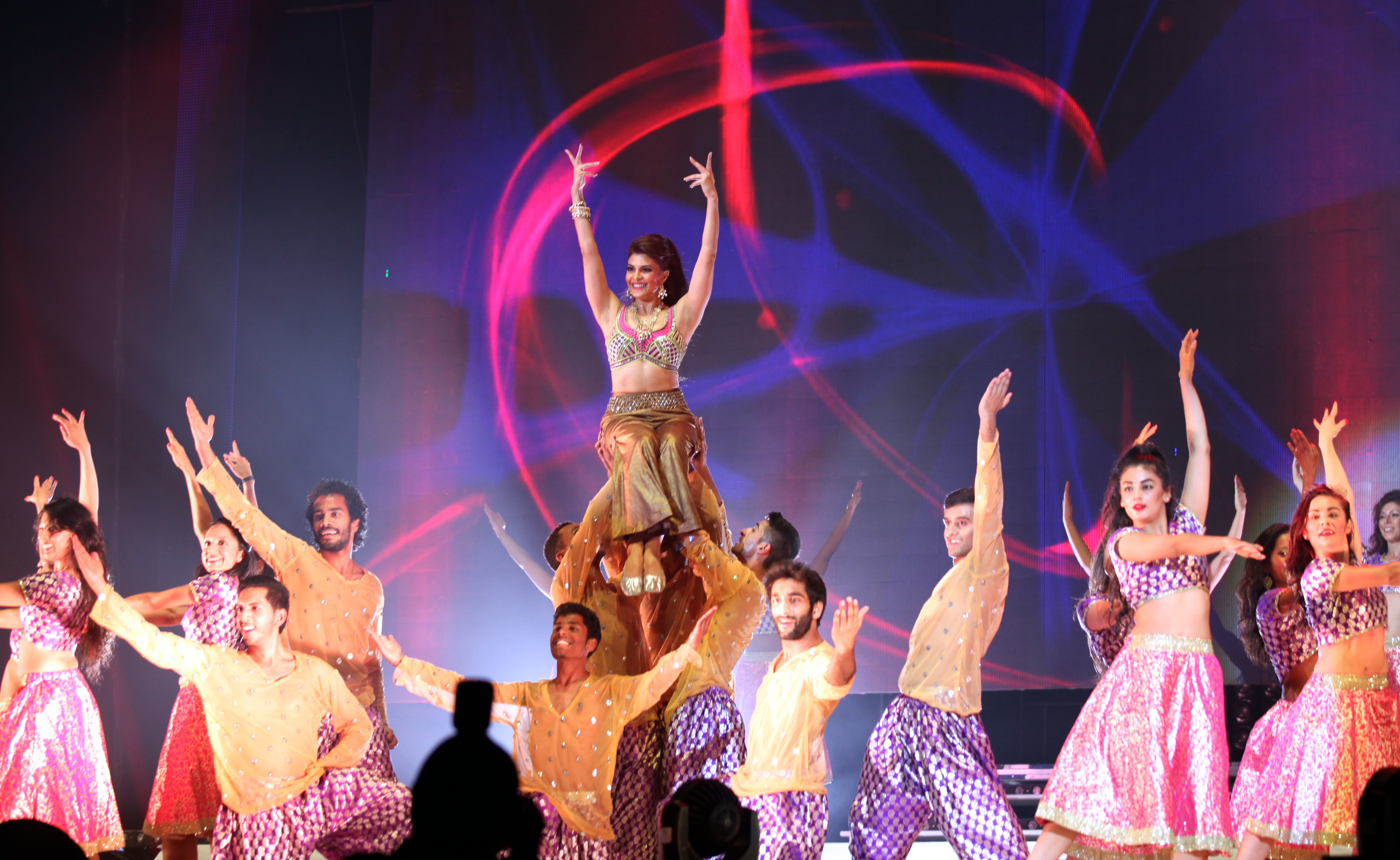 Jacqueline Fernandez in Bollywood Showstoppers 2014 with Flex FX